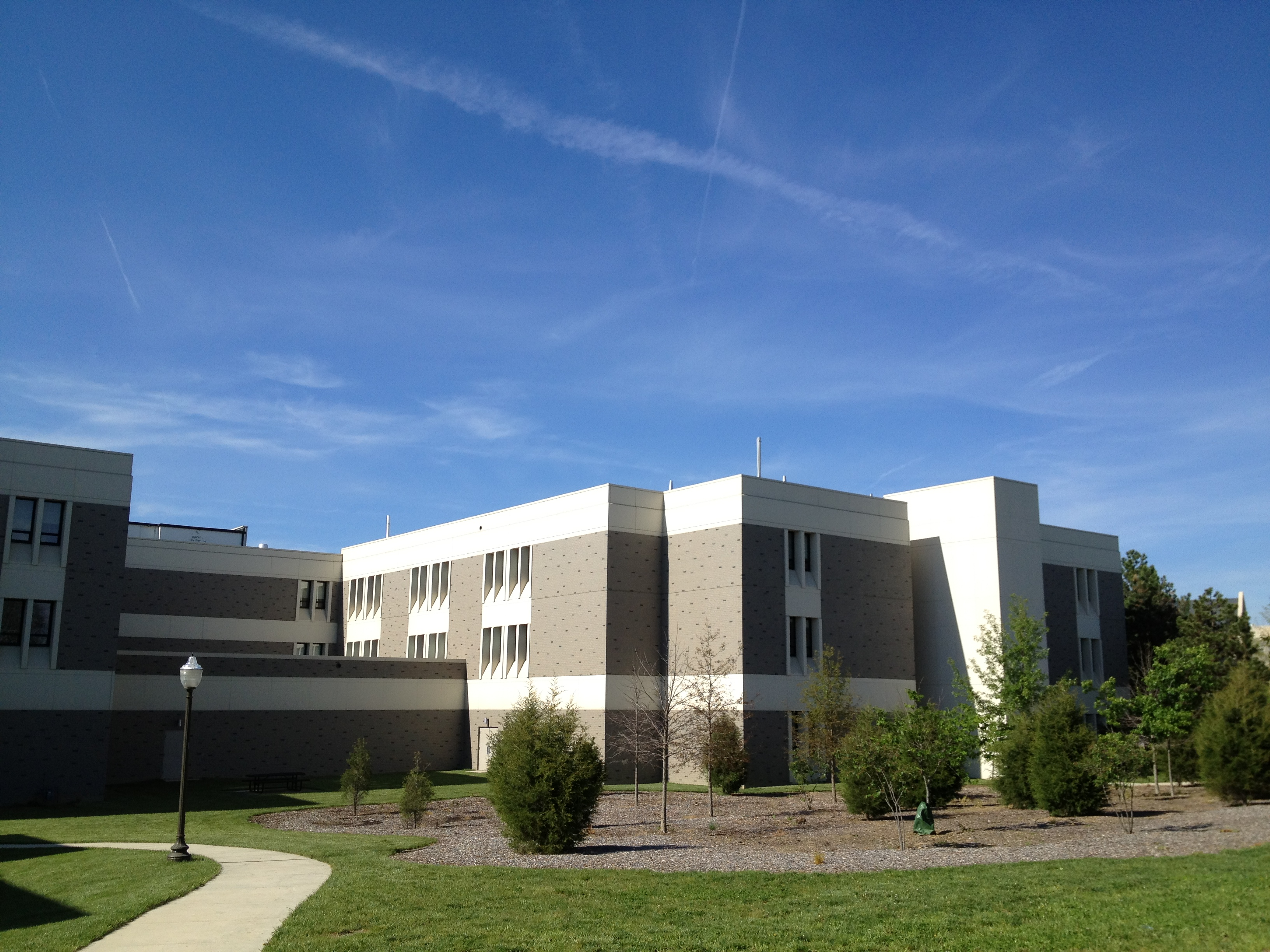 Litton-Reaves Hall, Virginia Tech, Blacksburg, Virginia